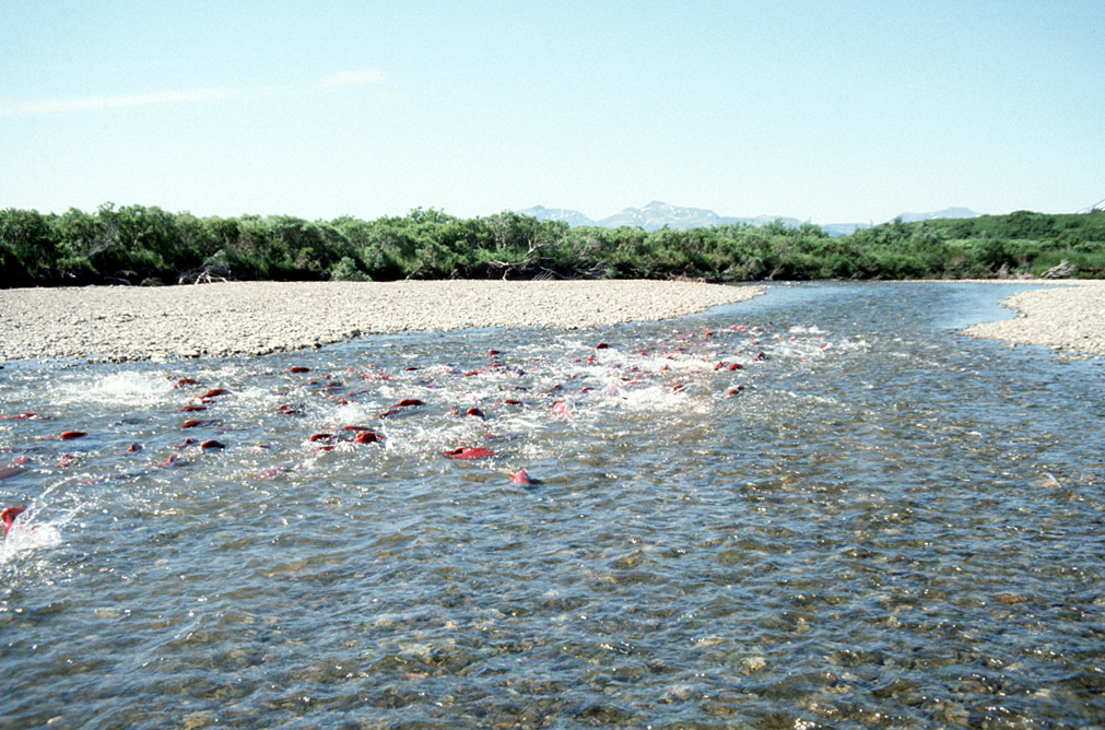 Spawning Salmon in Becharof Stream within the Becharof Wilderness in southern Alaska, USA.